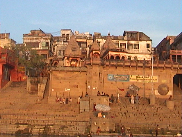 See Varanasi Development Cooperation Handbook/Stories/Responsible Development - Varanasi The Varanasi Heritage Dossier Kautilya Society Play media Vrinda Dar - How we got involved in heritage protection of Varanasi